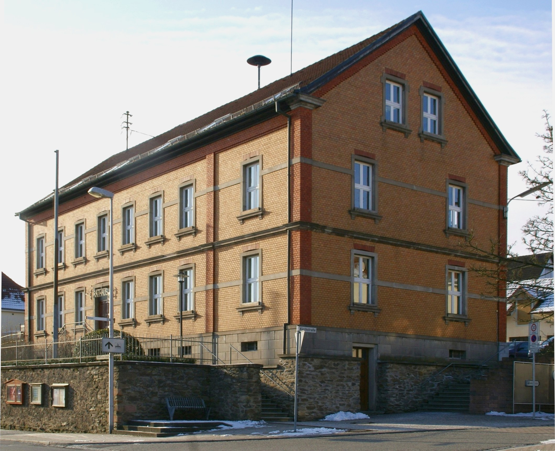 Townhall of Markt Mömbris